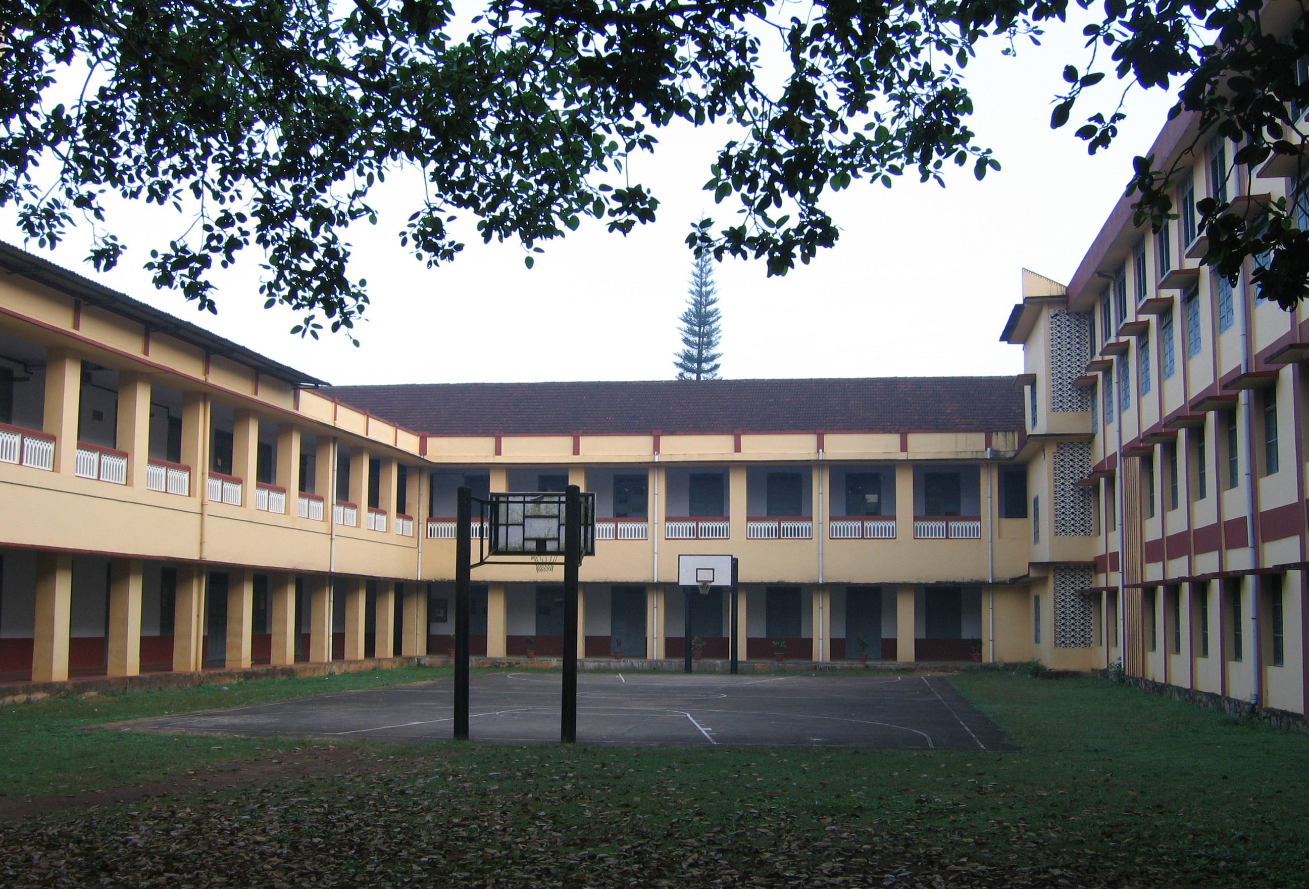 Devagiri College - Kozhikode, a view of the old basketball court